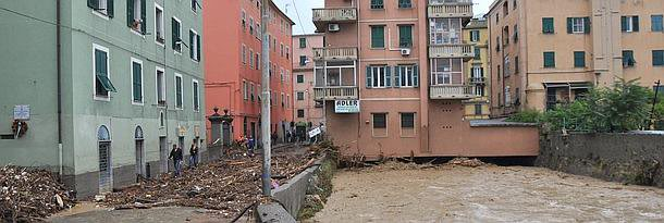 Edificio situato sopra il rio Chiaravagna il giorno che causò lo straripamento. Demolito in seguito per la messa in sicurezza del torrente.